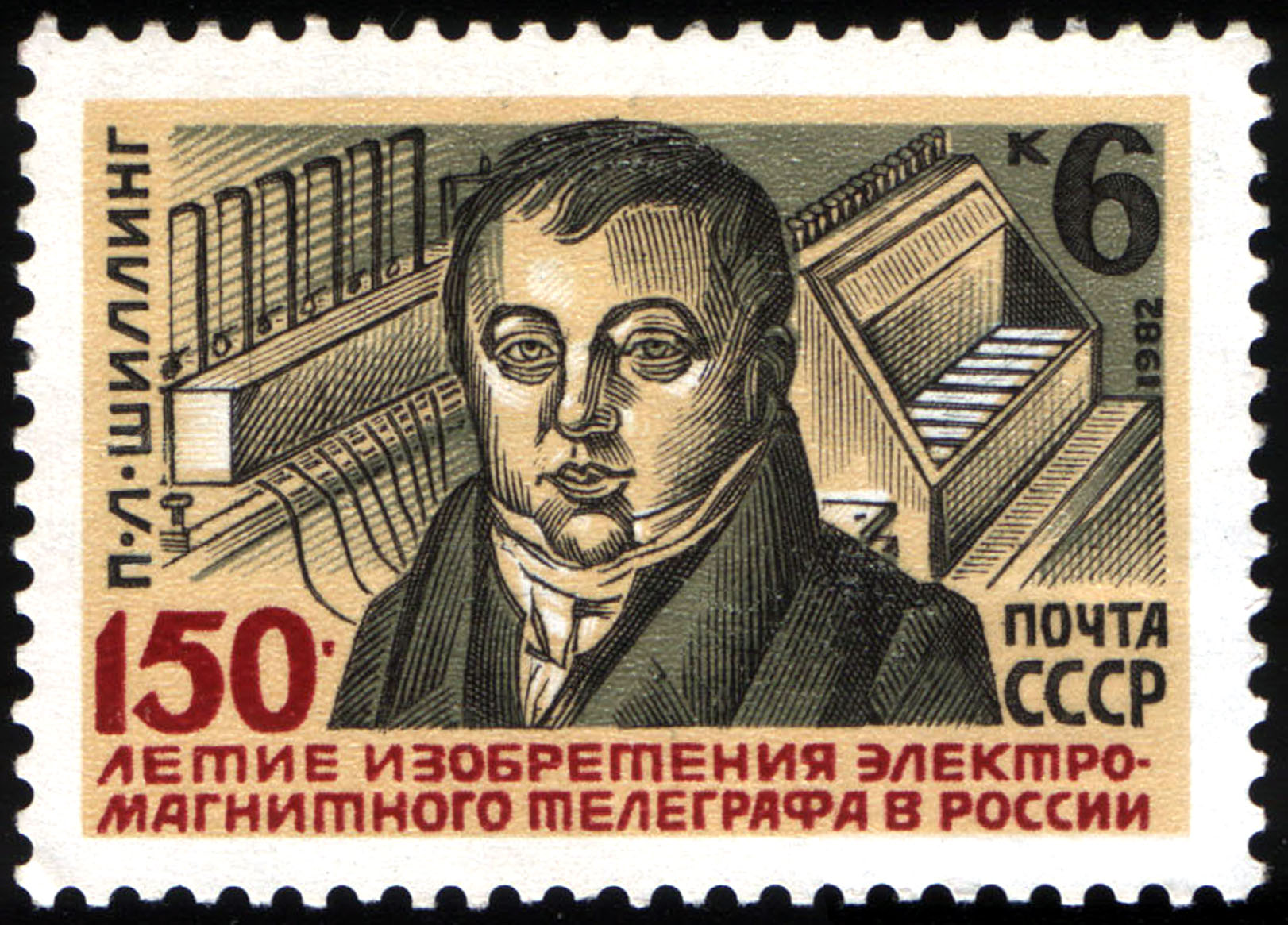 A 6 kopek USSR stamp commemorating Pavel Schilling in 1982. The legend along the bottom reads "The 150th anniversary of the invention of electromagnetic telegraph in Russia" ("150-летие изобретения электромагнитного телеграфа в России") The legend along the side reads P.L. Schilling